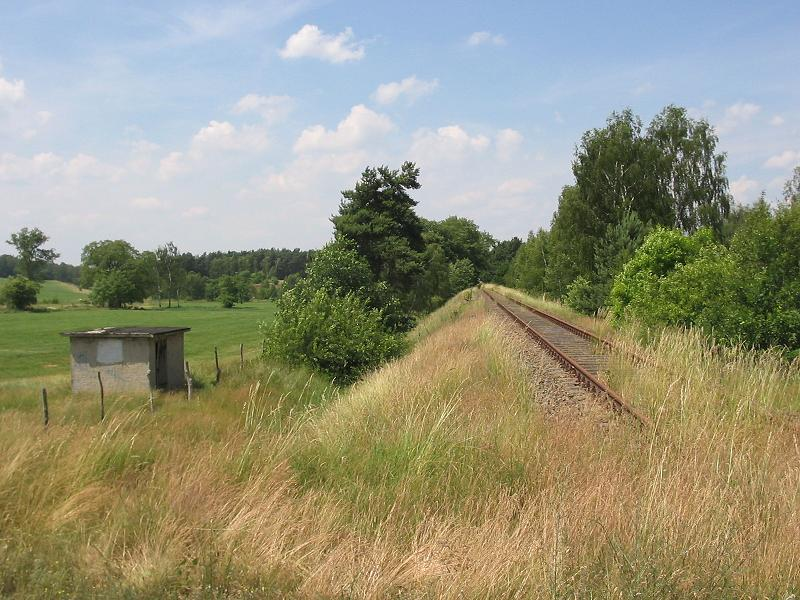 Closed railway „Brandenburgische Städtebahn“ nearby Preußnitz. The village Preußnitz is a part of the village Kuhlowitz, an incorporated part of the town Belzig in Brandenburg, Germany.